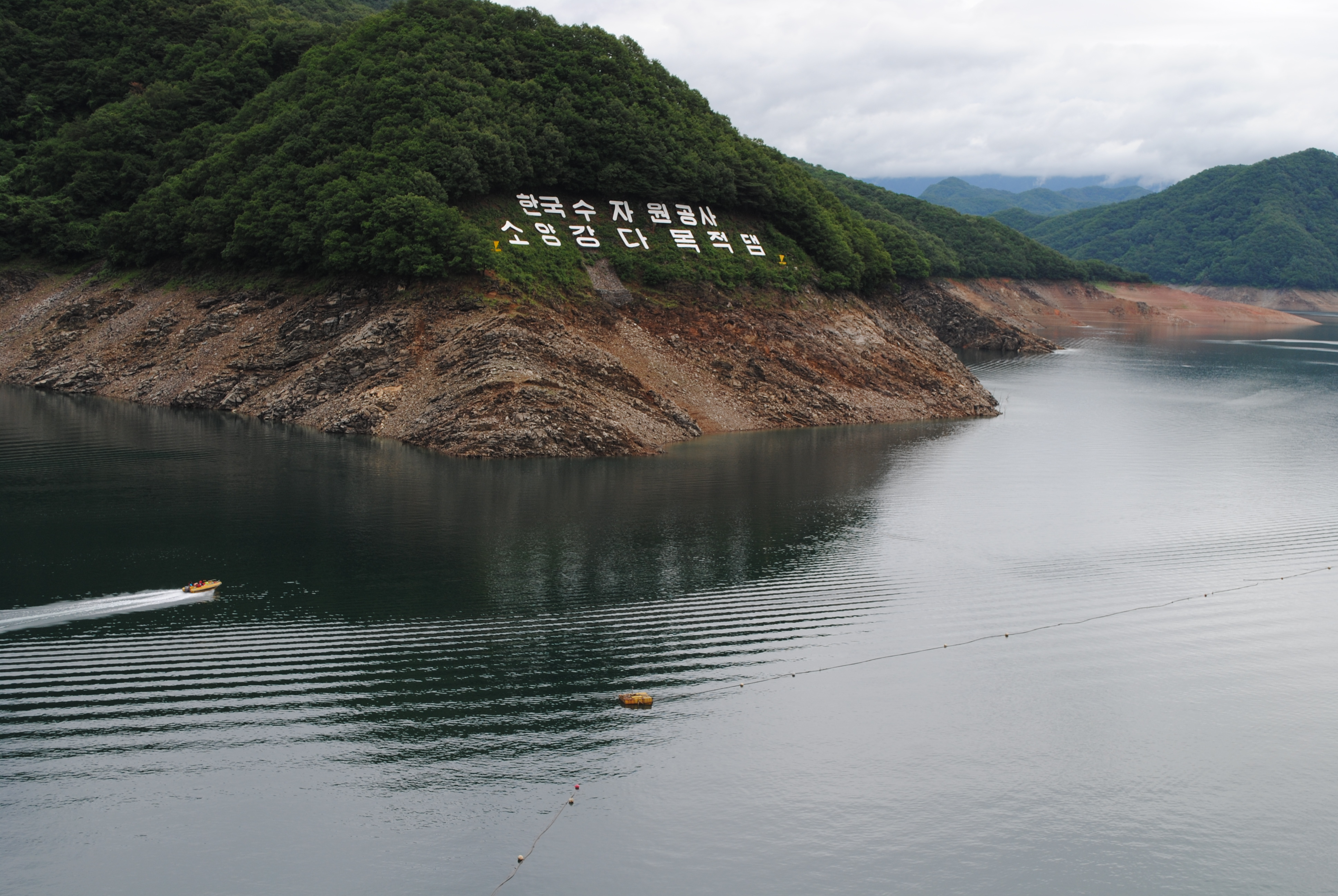 A image of Soyang dam at Chuncheon, Republic of Korea.